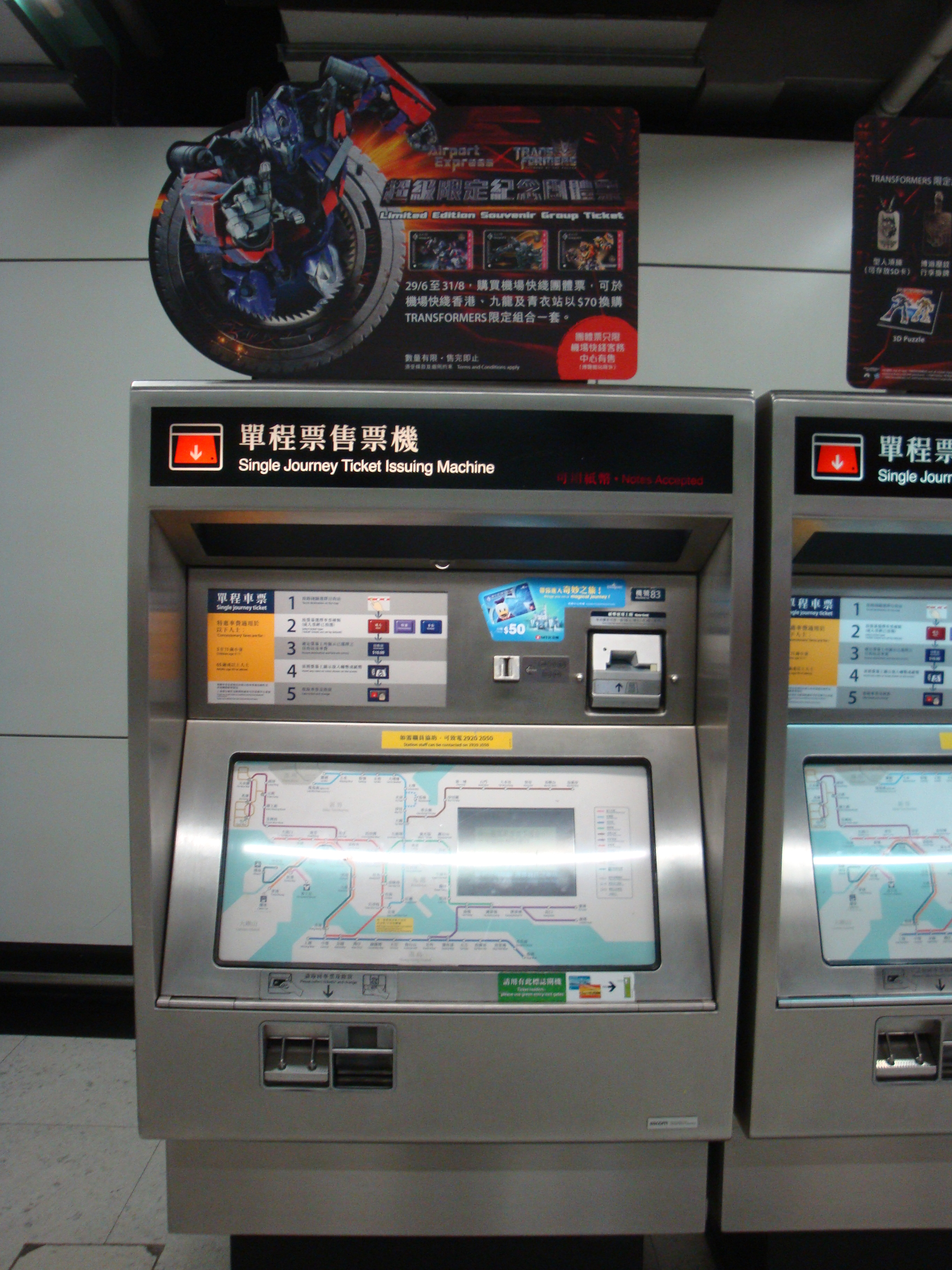 MTR_Single_Journey_Ticket_Issuing_Machine_2009-8-15.JPG